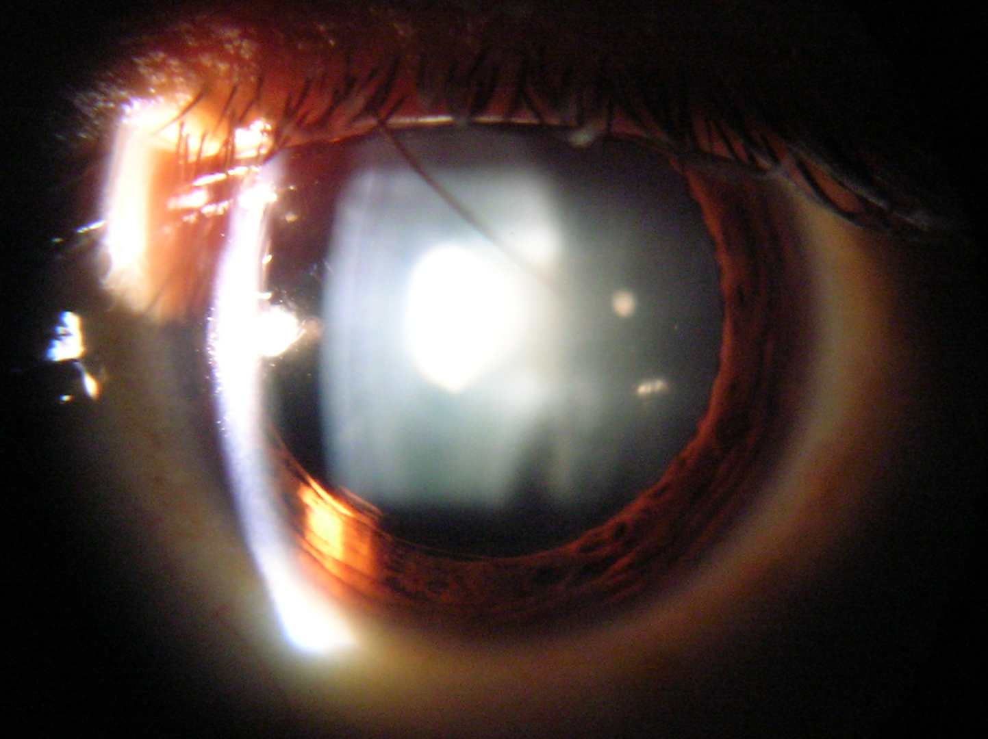 Slit lamp view of Cataract in Human Eye